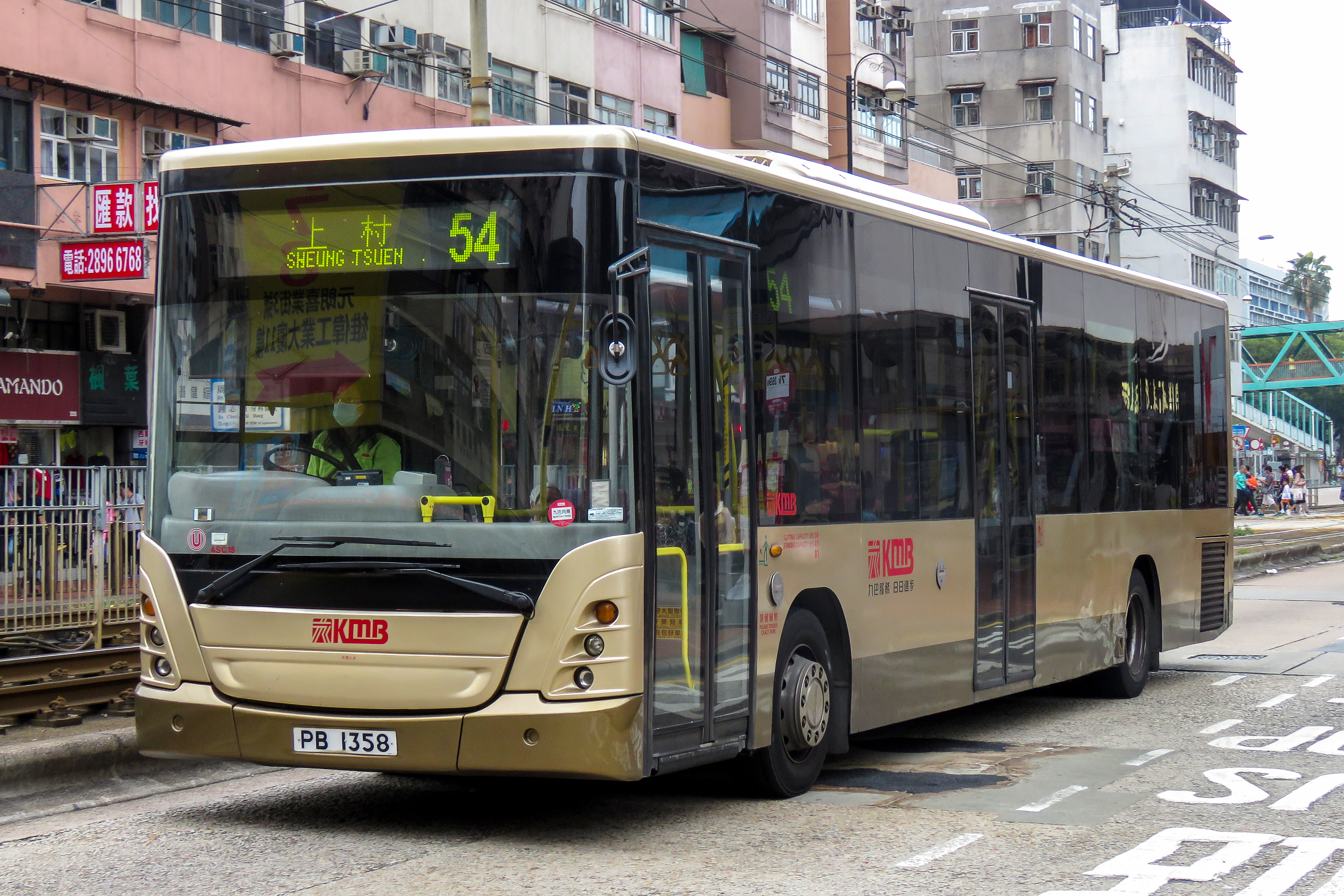 Sometimes this route is run by single-deck buses.